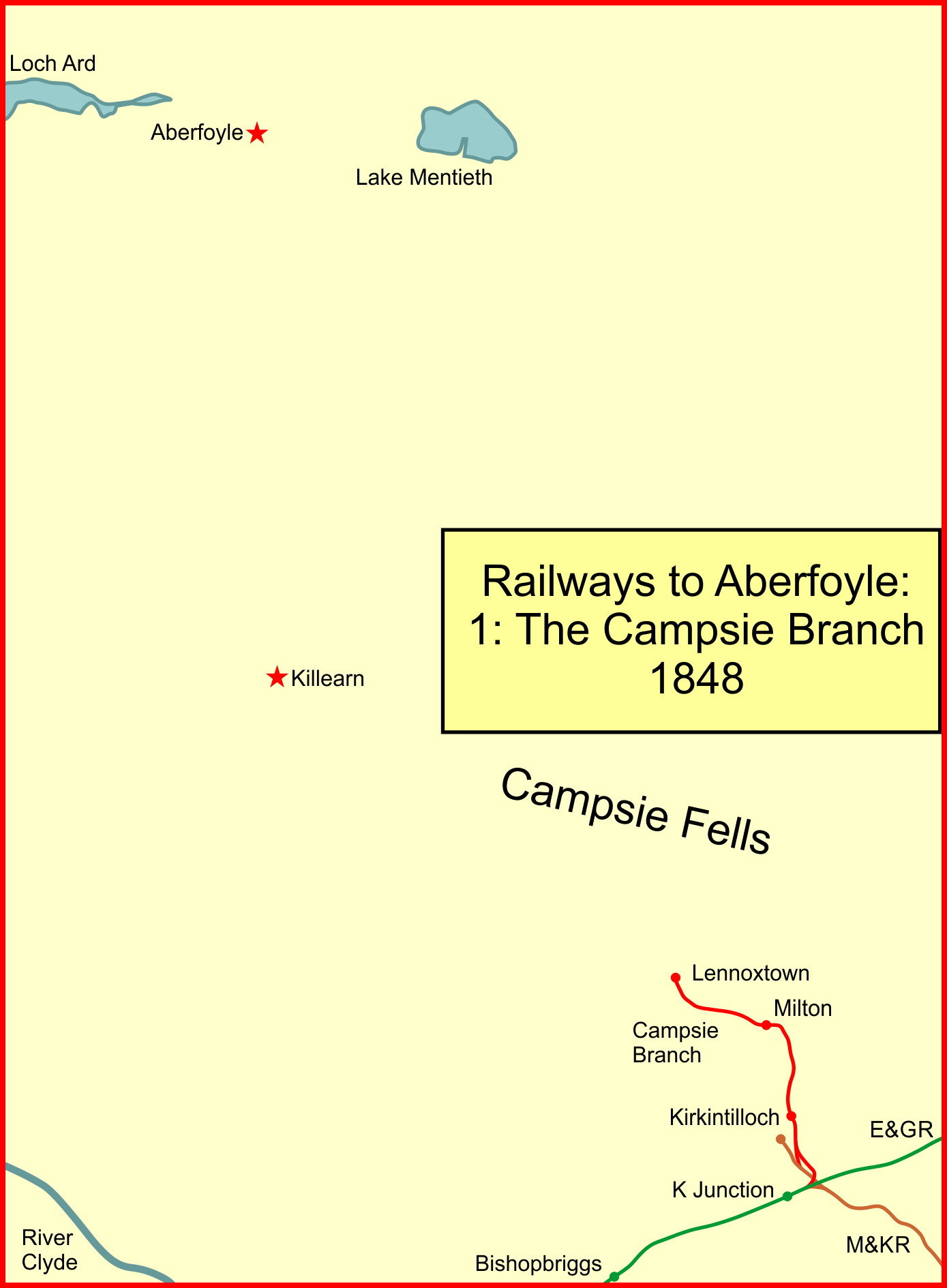 System map of the Campsie Branch railway line in Scotland, 1848